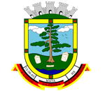 Coat of Mata City - West of Rio Grande do Sul